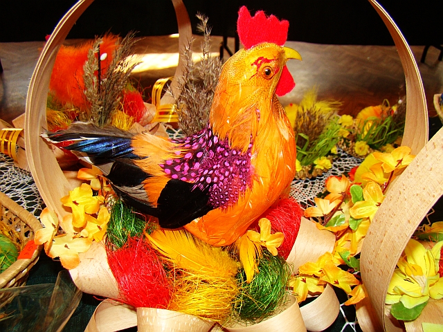 folklore